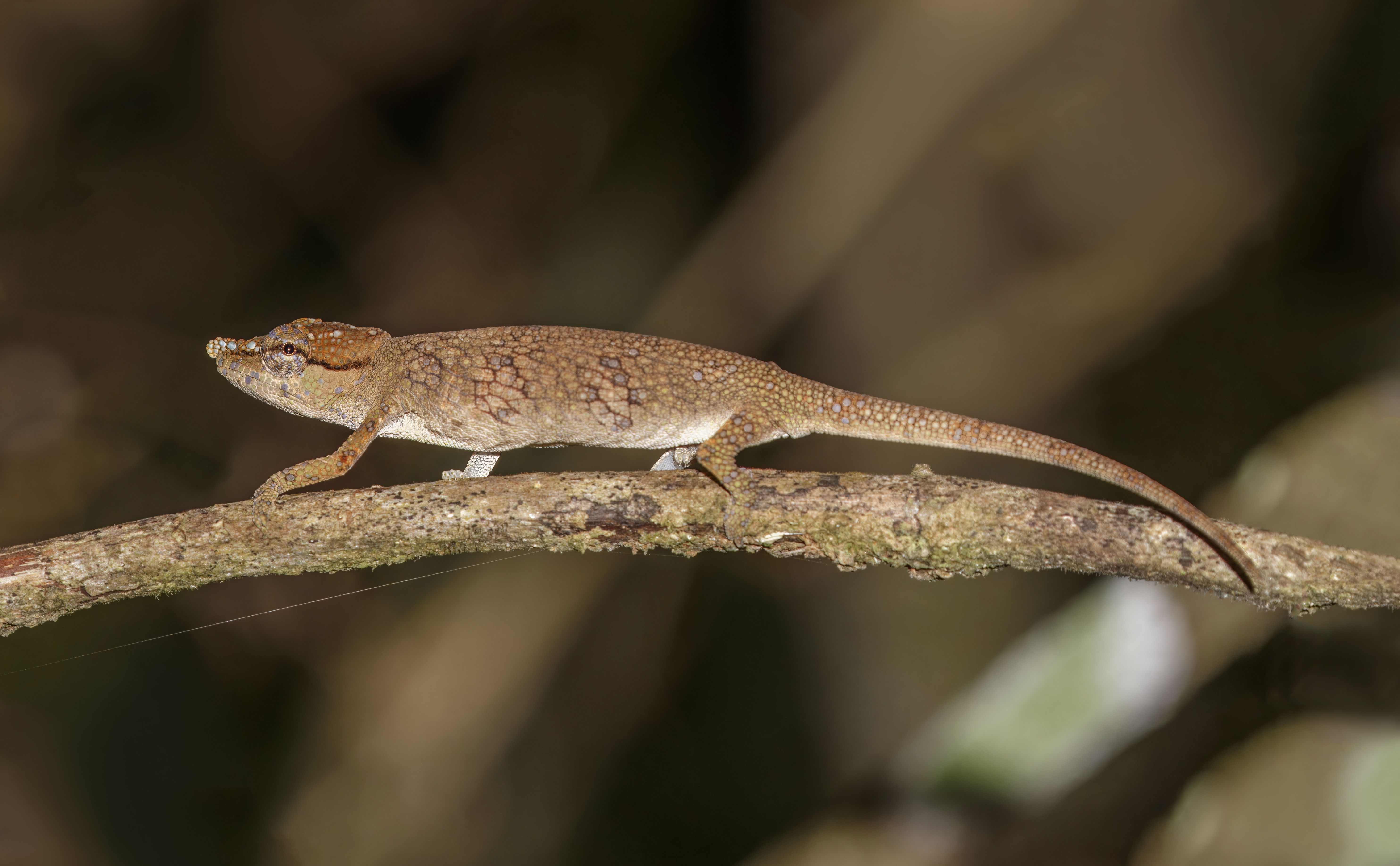 Short-nosed deceptive chameleon (Calumma fallax), Ranomafana National Park, Madagascar